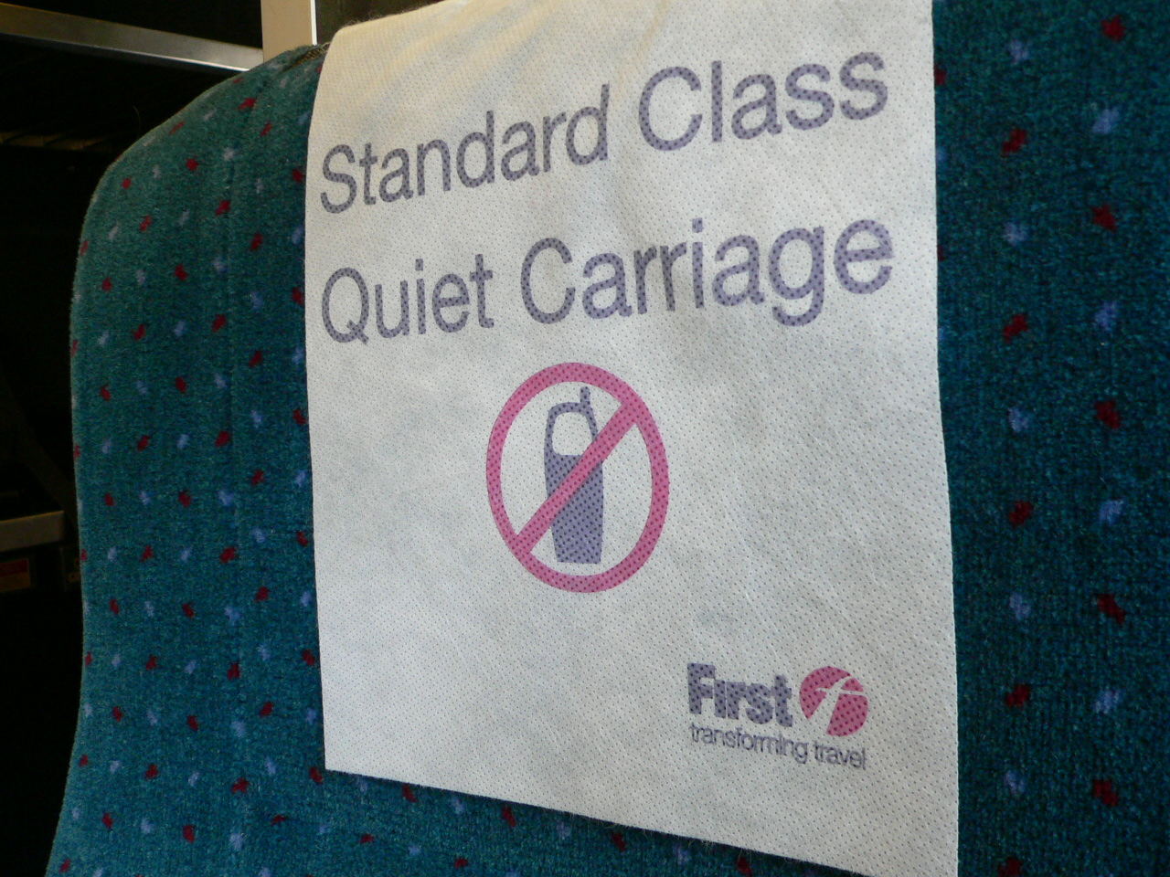 A headrest cover in coach A, the standard class Quiet Carriage on a First Great Western HST. Mobile phones and personal stereos are not permitted to be used by passengers travelling in this carriage.